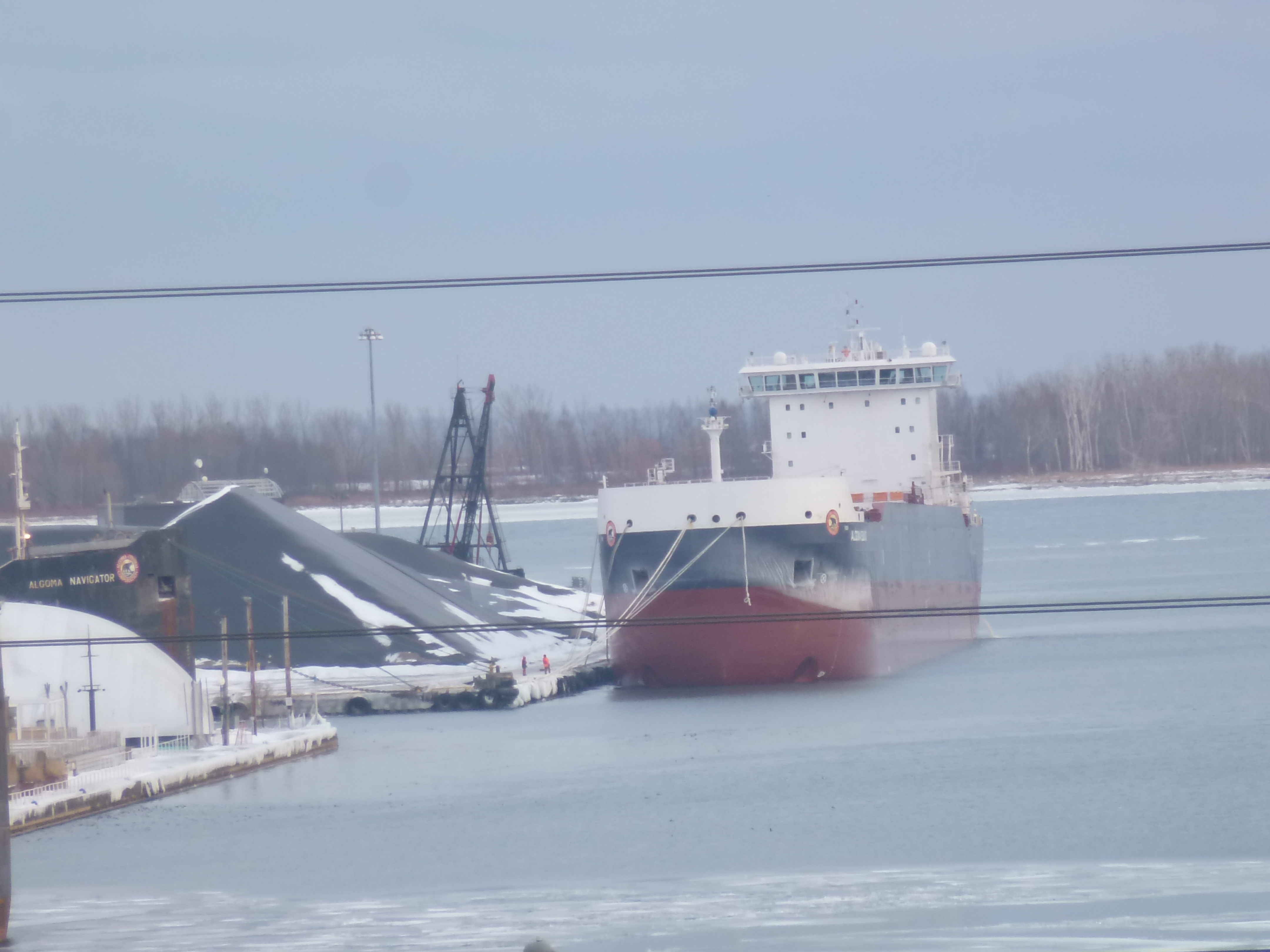 Two freighters moored in Toronto, 4pm, 2014 01 01 (4)